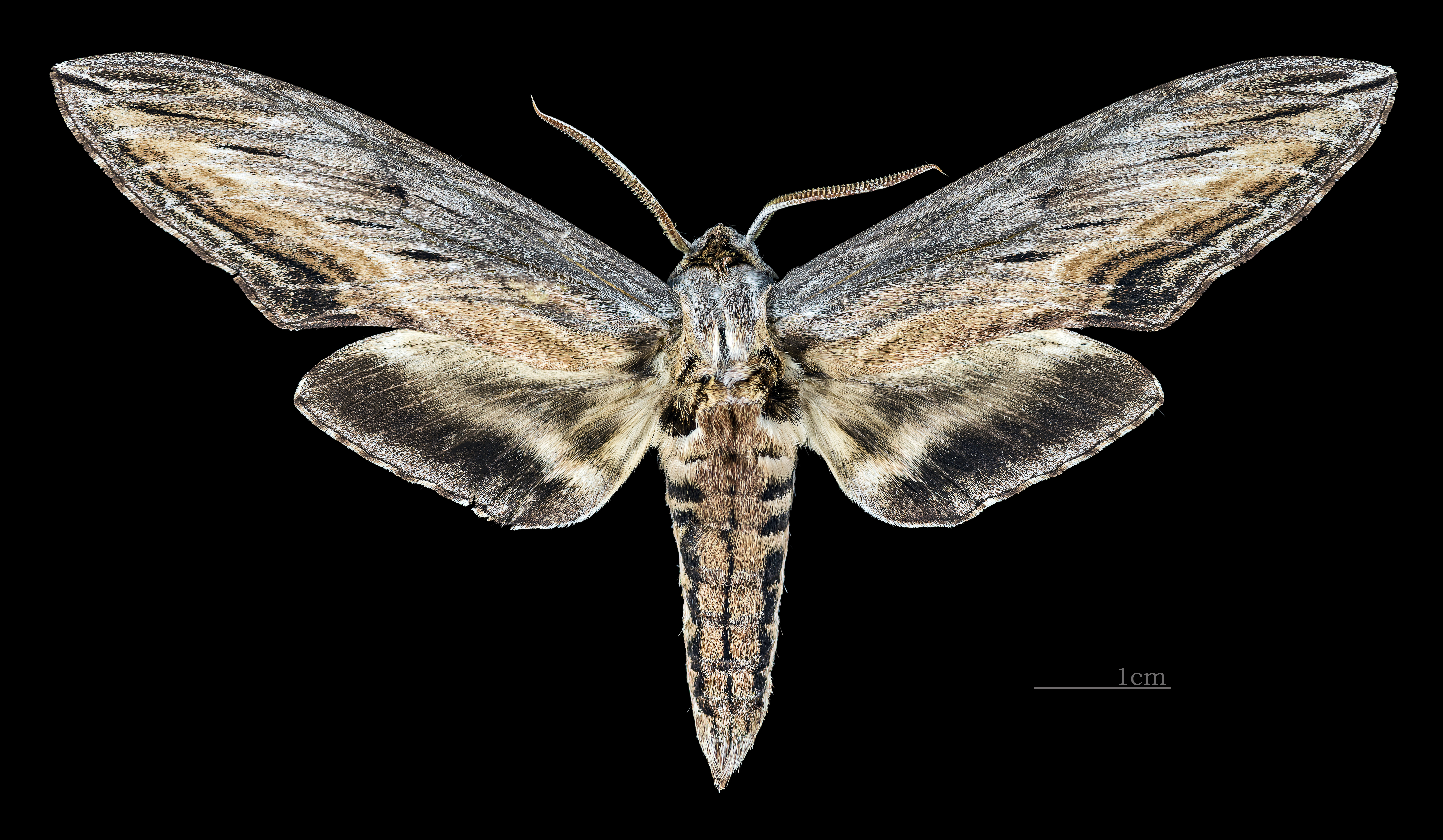 Sphinx franckii - Dorsal side Collection of the Mathematician Laurent Schwartz